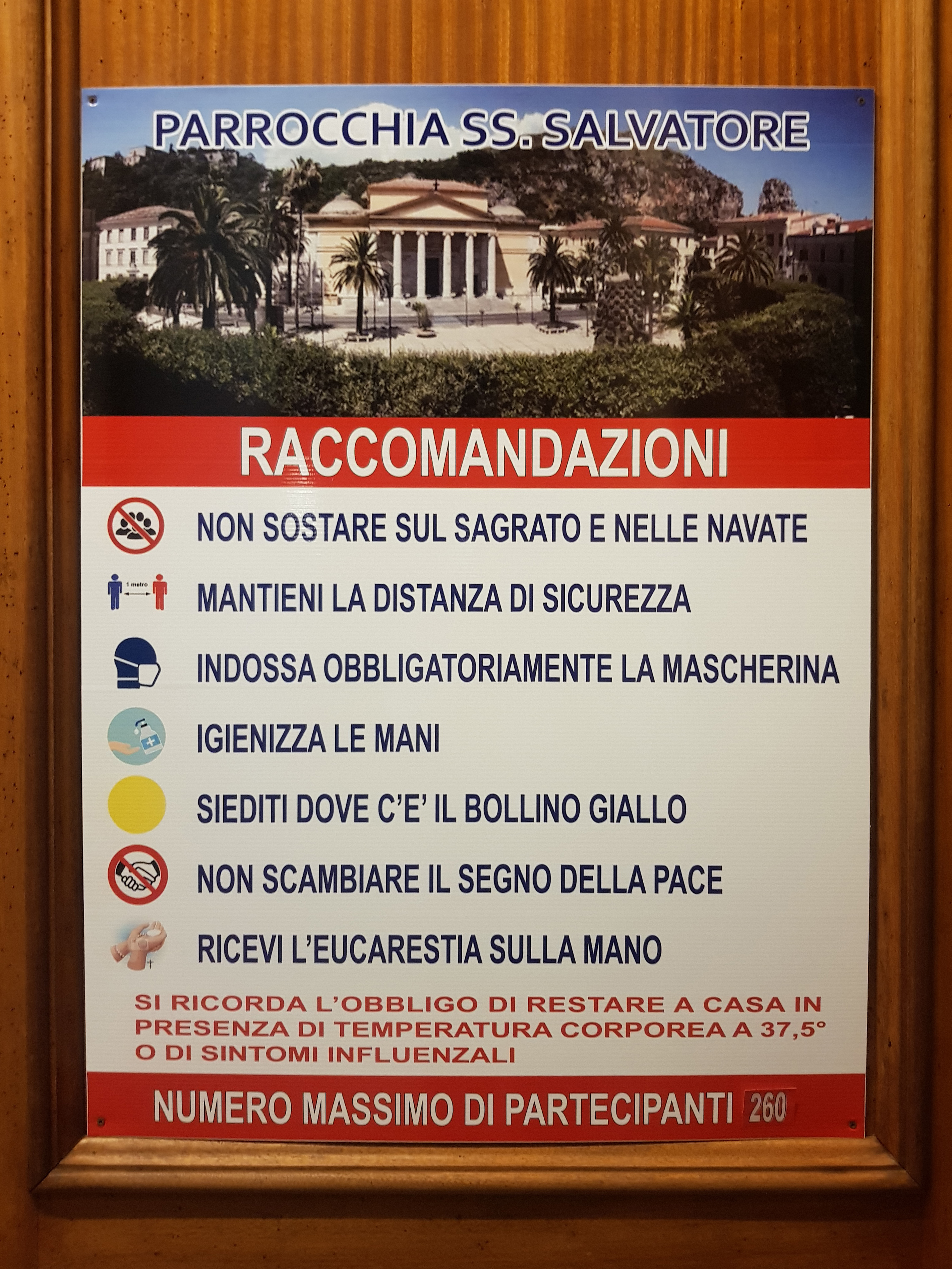 A sign hanging on the entry door of the church Santissimo Salvatore in the city of Terracina, in Lazio in Italy. The poster shows the rules people must follw when entering the church. These rules were imposed to prevent the spreading of the virus covid-19 during the pandemic in 2020. Picture taken on the 23rd of July in 2020.